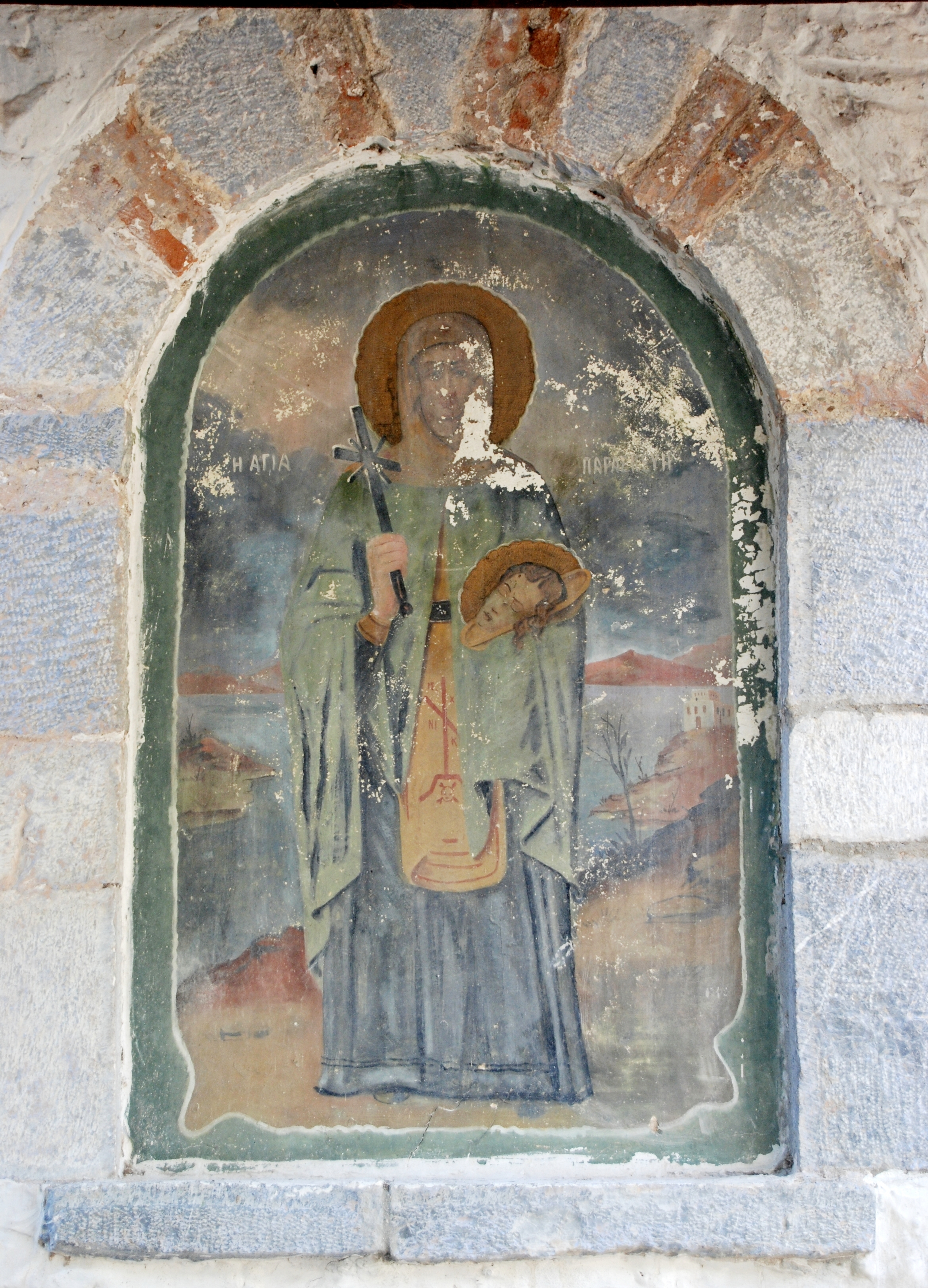 Saint Paraskevi Church of Dragota, Kastoria, Greece